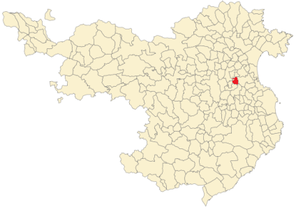 Sant Mori